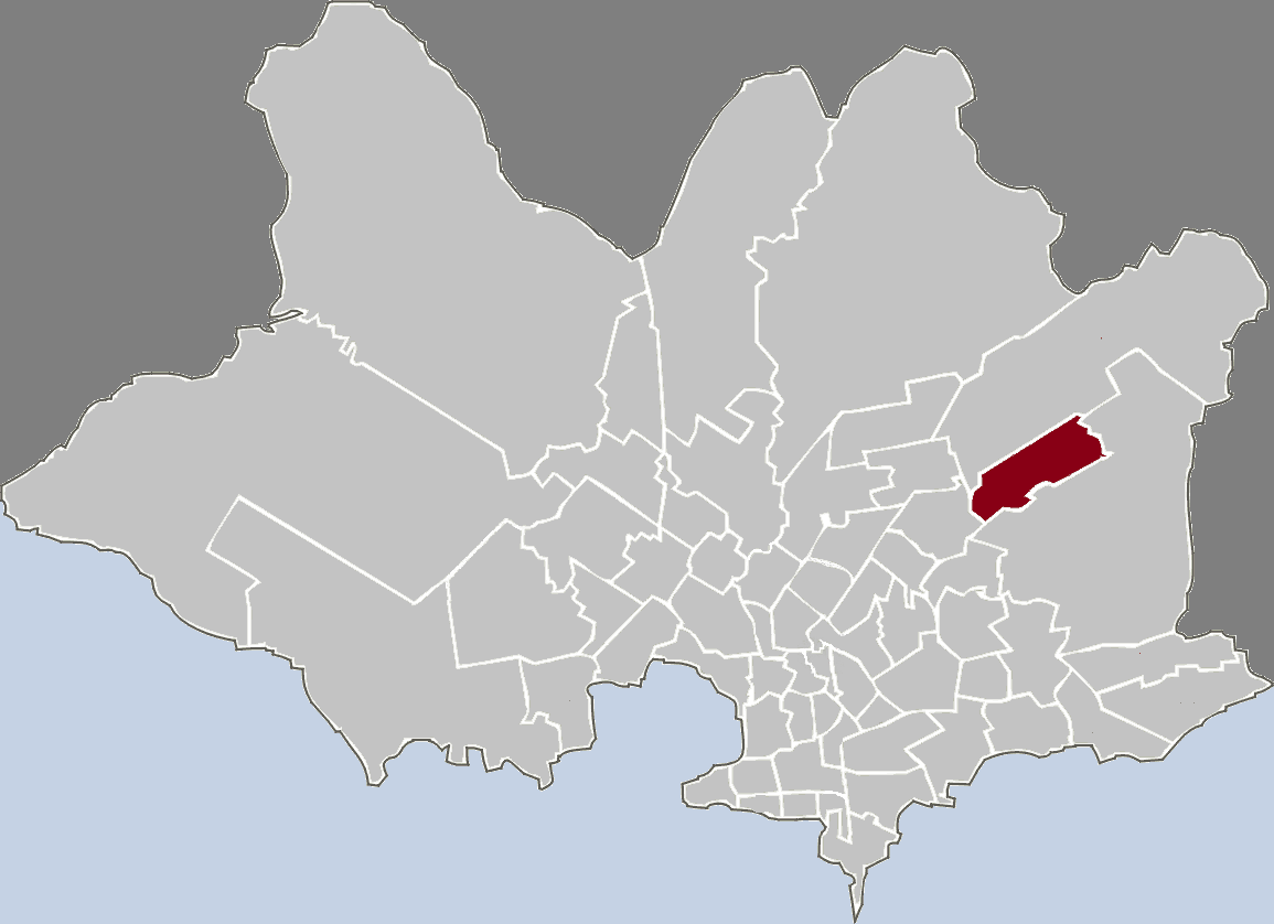 Map highlighting the given barrio in Montevideo.